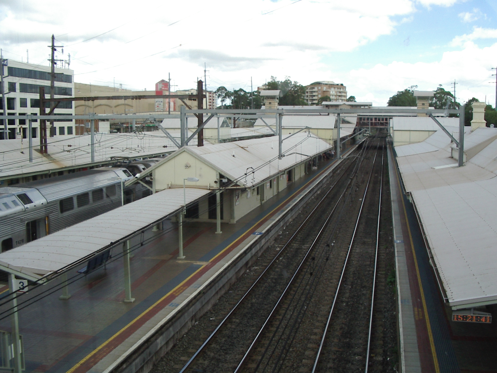 Photograph of Hornsby railway station, Sydney, taken from northern passenger bridge connecting all four platforms, looking south.